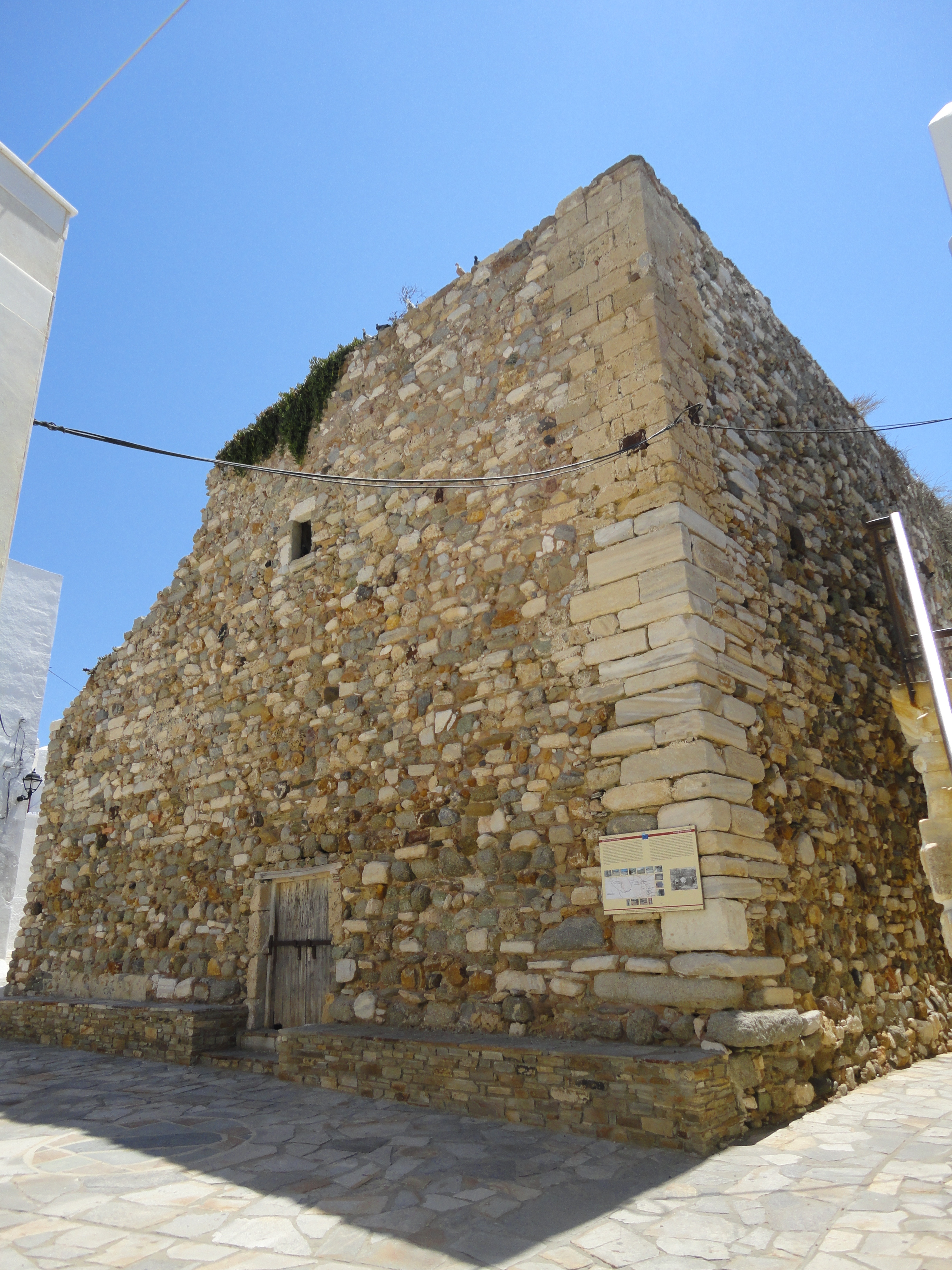 The Tower of Sanudo in Chora, Naxos. It was built in 1207 and was part of the Ducal Palace of the Duchy of Naxos